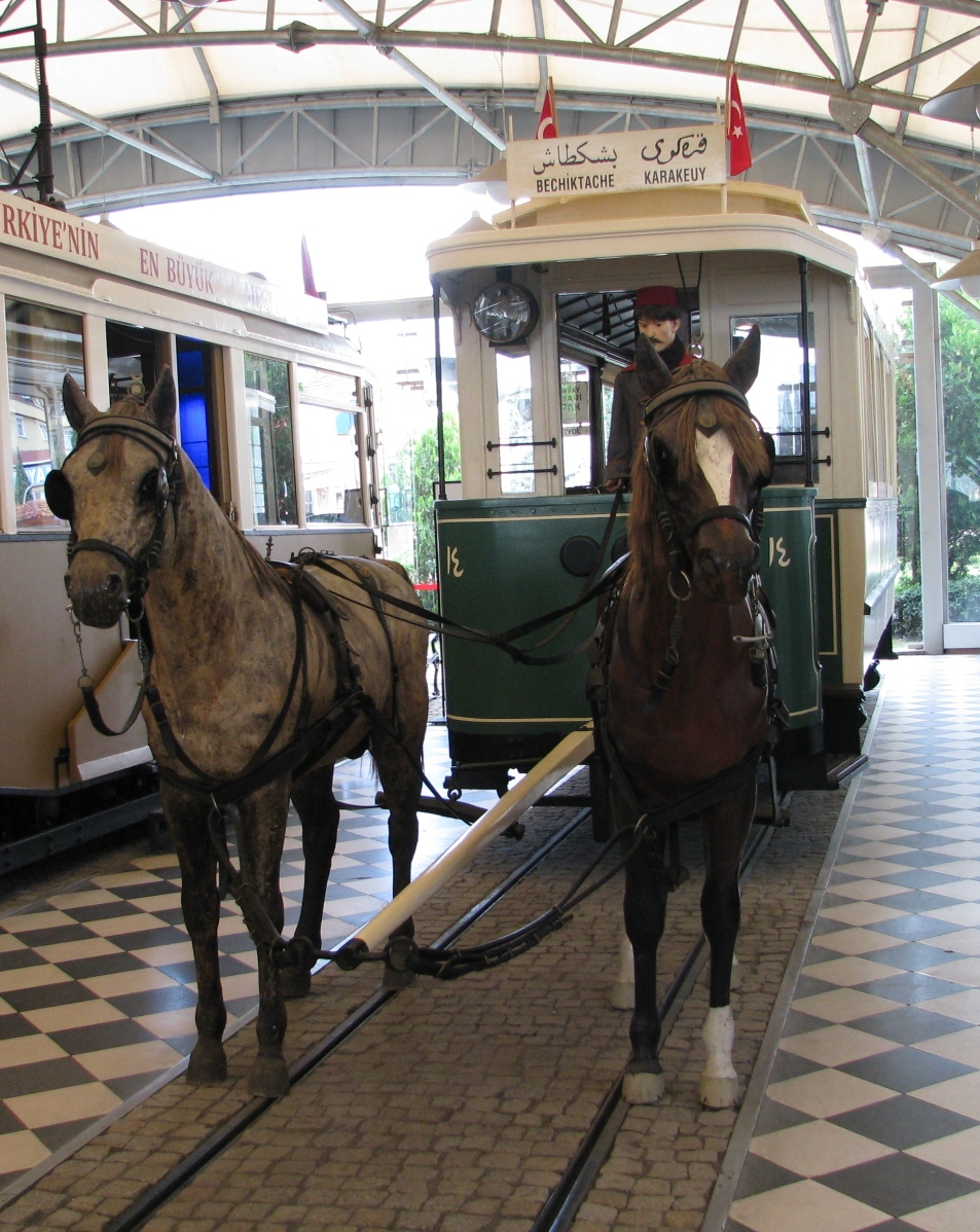 Istanbul Horse Drawn Tram at Rahmi M. Koç Museum. This particular tram worked on Route no. 14 between Beşiktaş and Karaköy, and is shown in its original Otoman era livery.